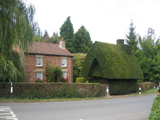 Stonehouse, Bush house, Glasshouse. An interesting example of topiary at Glasshouse.